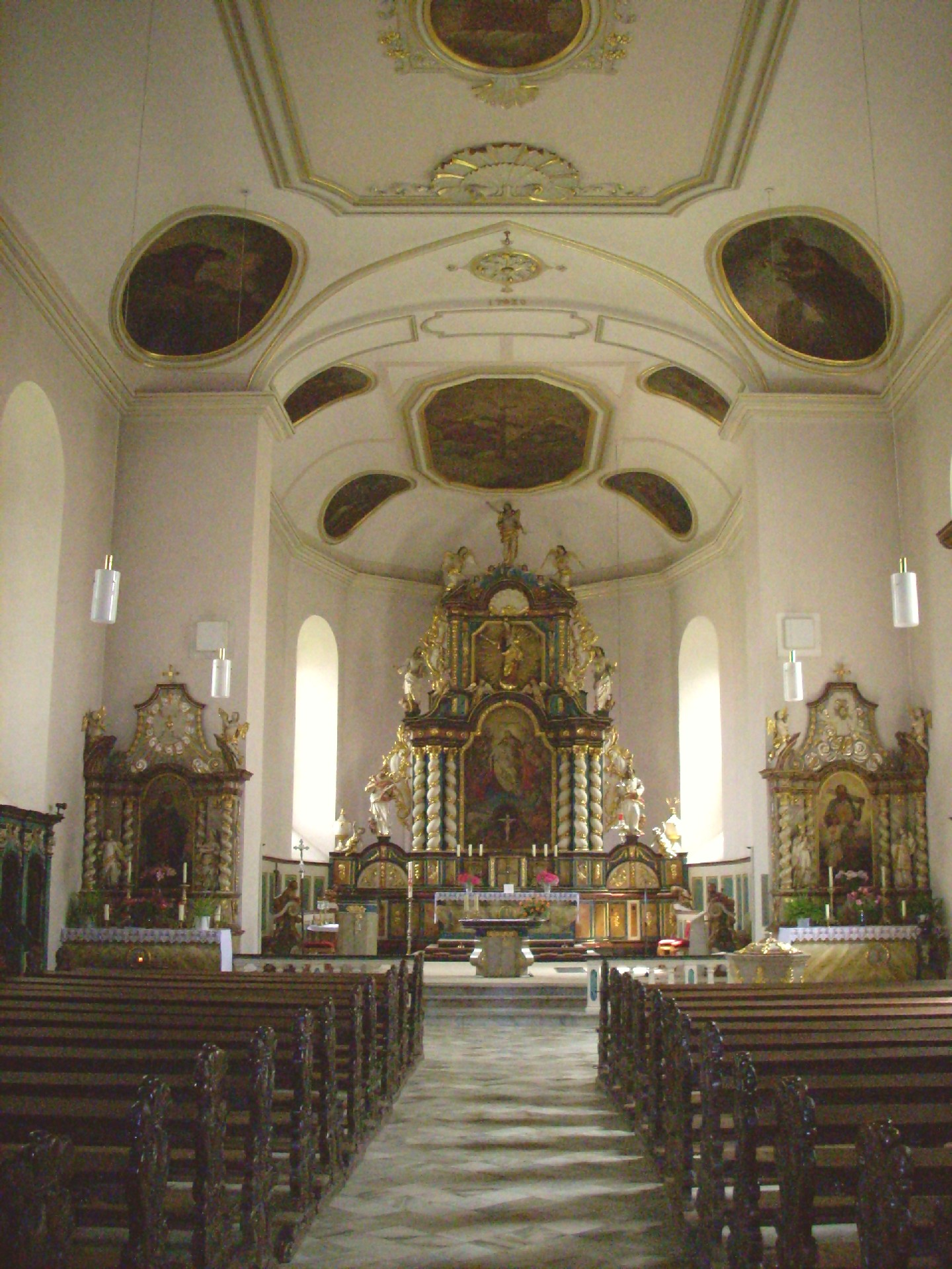 Algermissen, St. Matthäus Catholic Church, interior